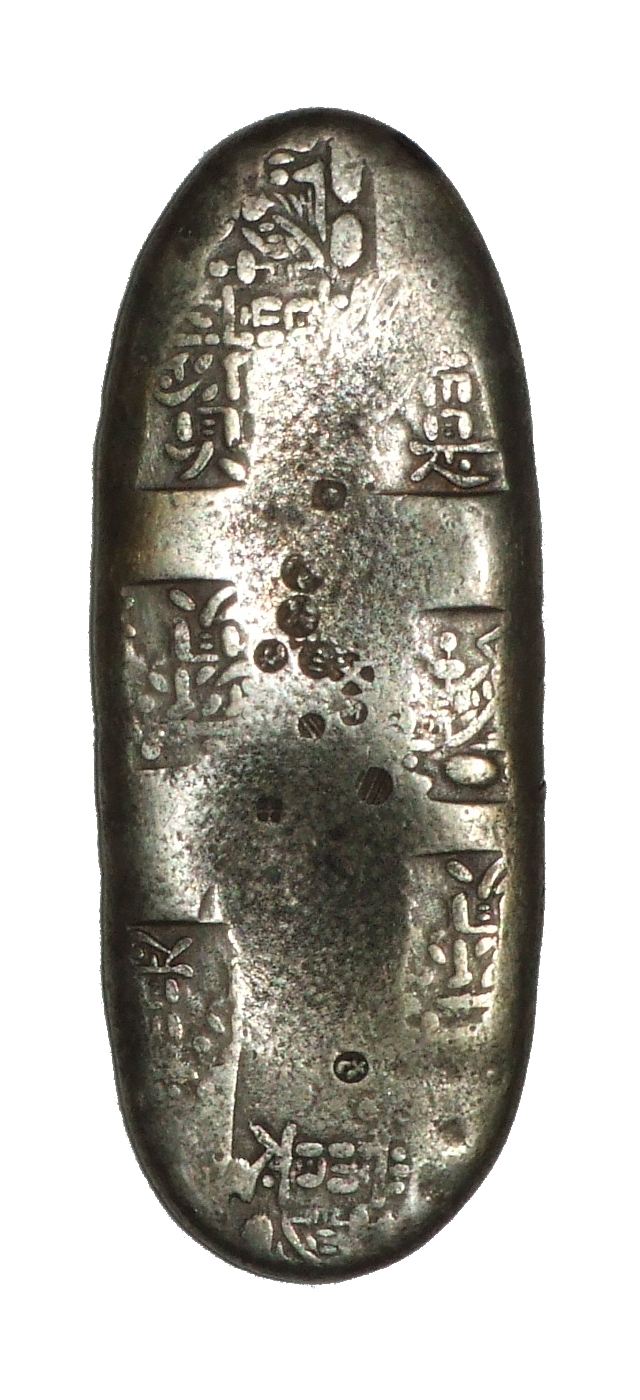 Shotokukoki-chogin